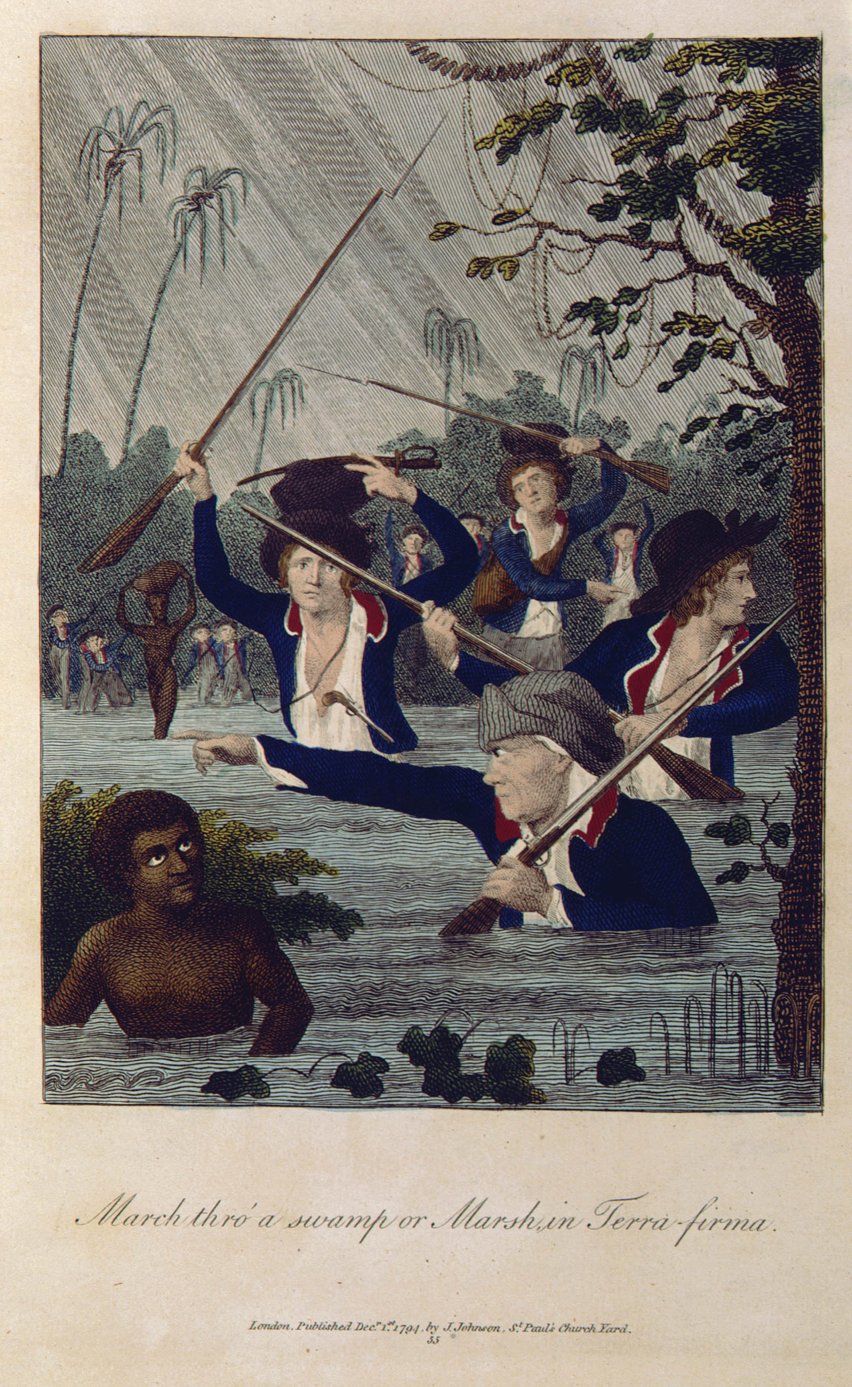 Blake after John Gabriel Stedman Narrative of a Five Years copy 2 object 12